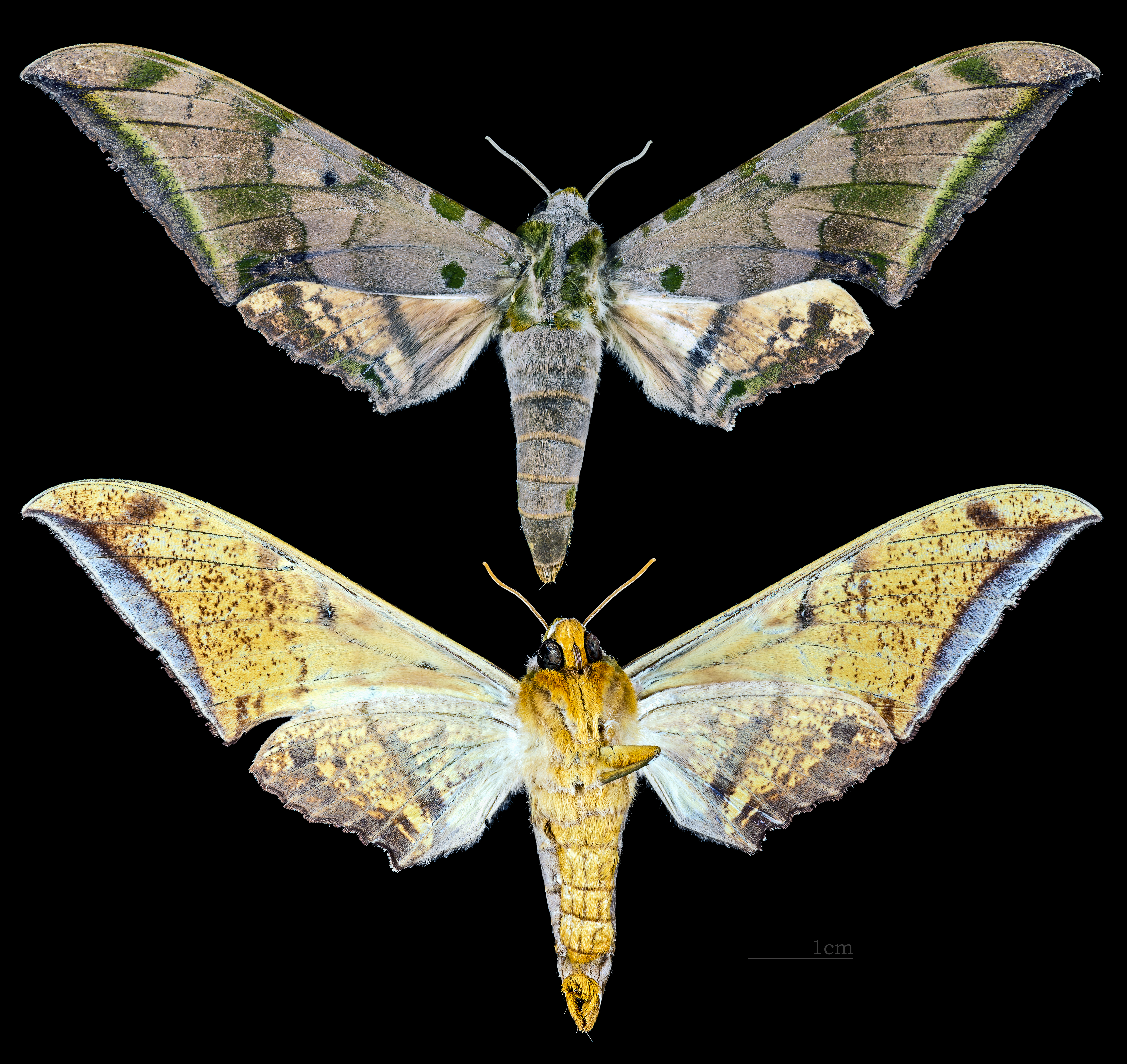 Ambulyx schauffelbergeri - Two views of same specimen Collection of the Mathematician Laurent Schwartz